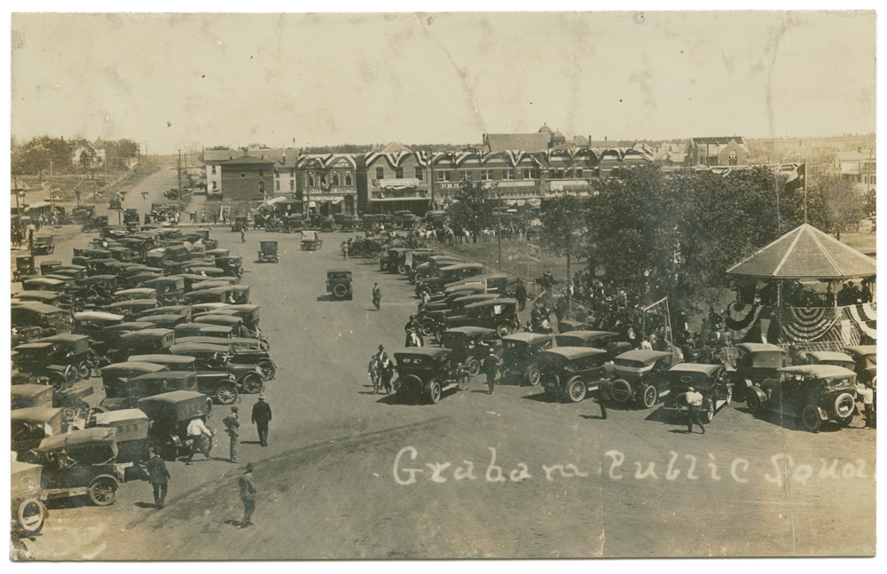 Title: Graham Public Square Date: ca. 1910-1920s Part Of: Collection of real photographic postcards of Texas Place: Graham, Young County, Texas Physical Description: 1 photographic print (postcard) File: ag2005_0001_01_134_c_graham_opt.jpg Rights: Please cite DeGolyer Library, Southern Methodist University when using this file. A high-resolution version of this file may be obtained for a fee. For details see the web page. For other information, . For more information, View Texas: Photographs, Manuscripts, and Imprints